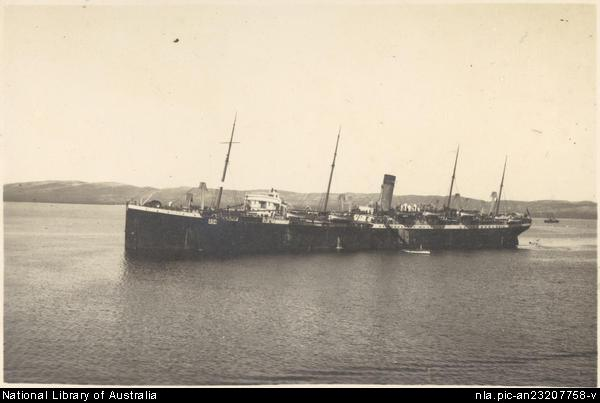 White Star Liner Runic (II) in Albany Harbour, Western Australia. Converted to whaling factory New Sevilla in 1930